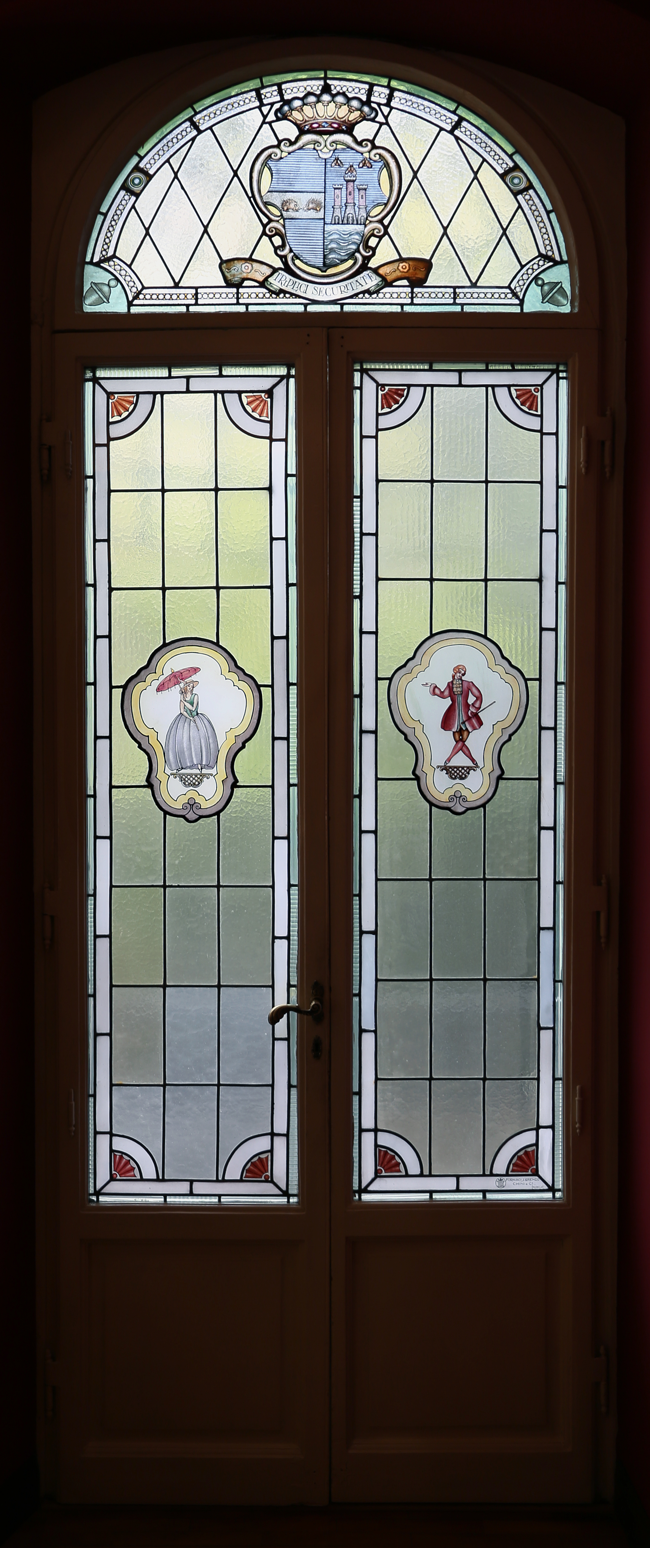 Hotel Regency (Florence) - Stained-glass by Tito Chini Courtesy of Hotel Regency, Florence, Italy (to re-use this file you may need a further authorization by the Hotel management).